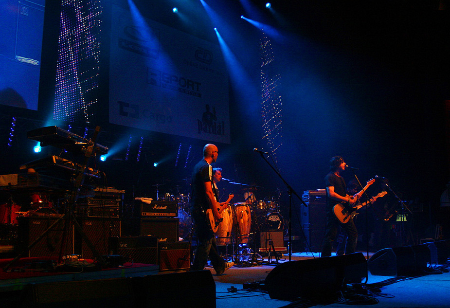 Czech band Chinaski on the concert at the annual music awards "Žebřík 2007"